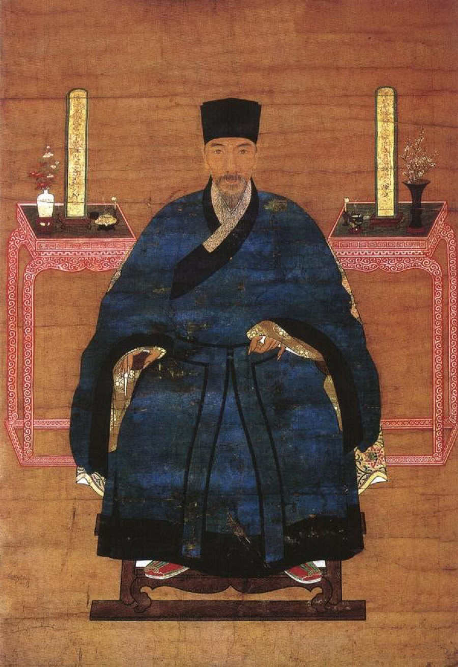 Portrait from China Ming Dynasty